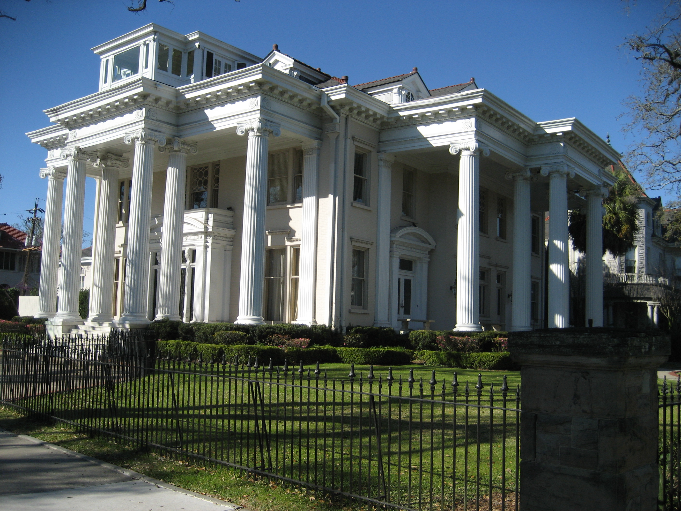 New Orleans: Mansion on St. Charles Avenue, formerly home of United Fruit Company president Samuel Zemurray, now the residence of the President of Tulane University.